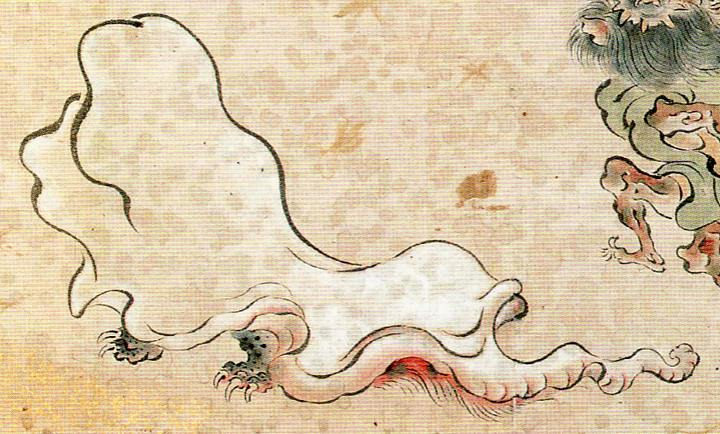 cloth-like monster from the "Hyakki no zu" (百鬼ノ図)